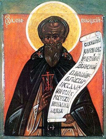 19th-century Russian icon of St. Josef of Volotsk.